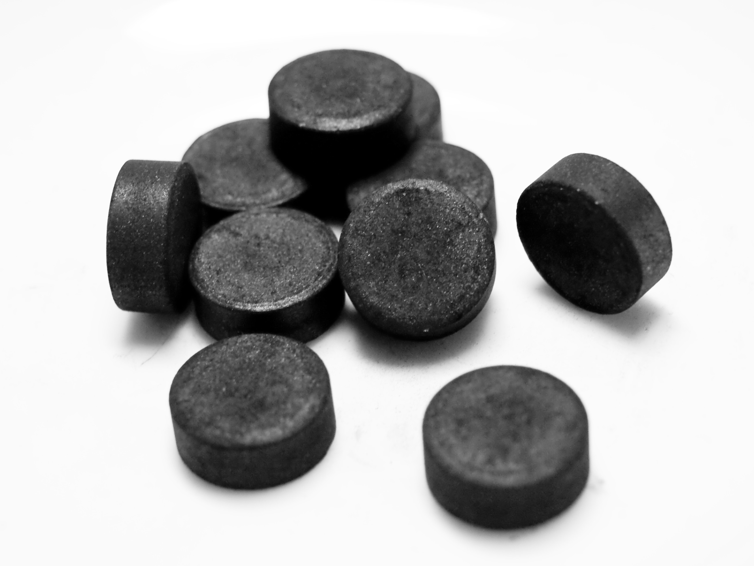 A few pills of bone char